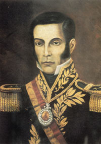 The bolivian president José Miguel de Velasco Franco (1795-1859)